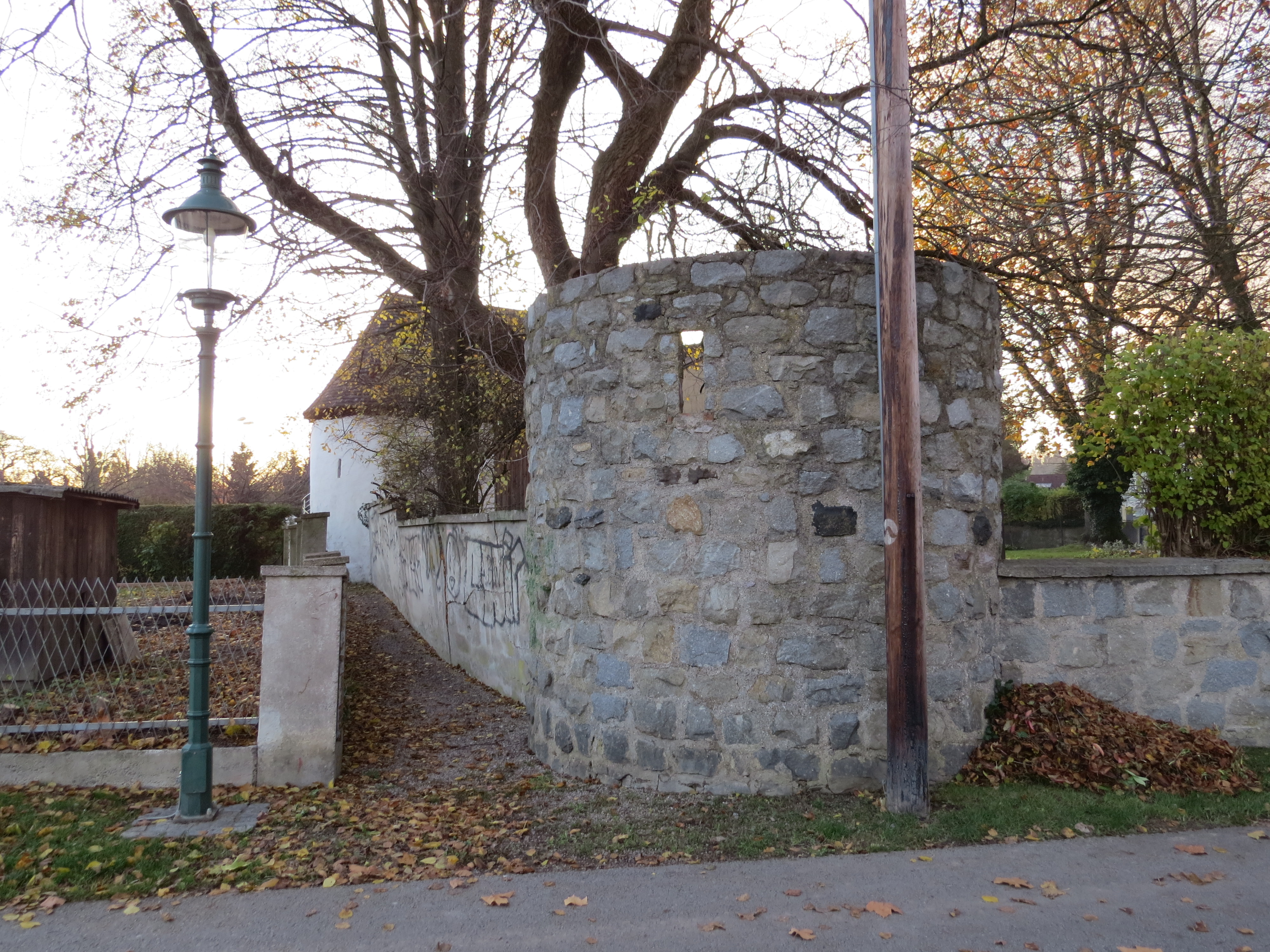 Turm und Vorwerk at Ybbs an der Donau